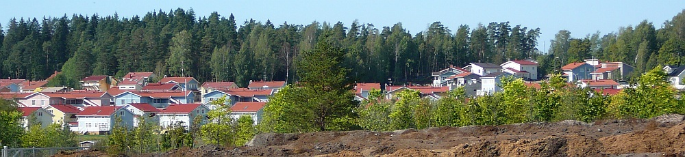 The new area of Espoo near Kauklahti. The slide was taken from the Central Park of Espoo.